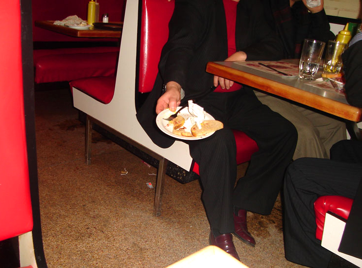 Leftovers as shown by a man in a restaurant.